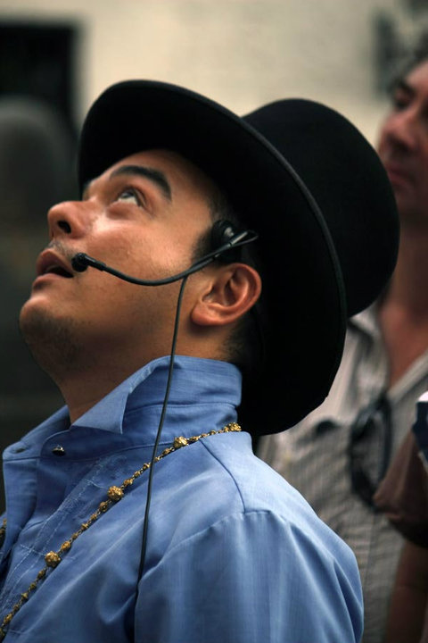 Carlos Celdran in the costume of an Illustrado performing while leading a tour of Intramuros, Manila